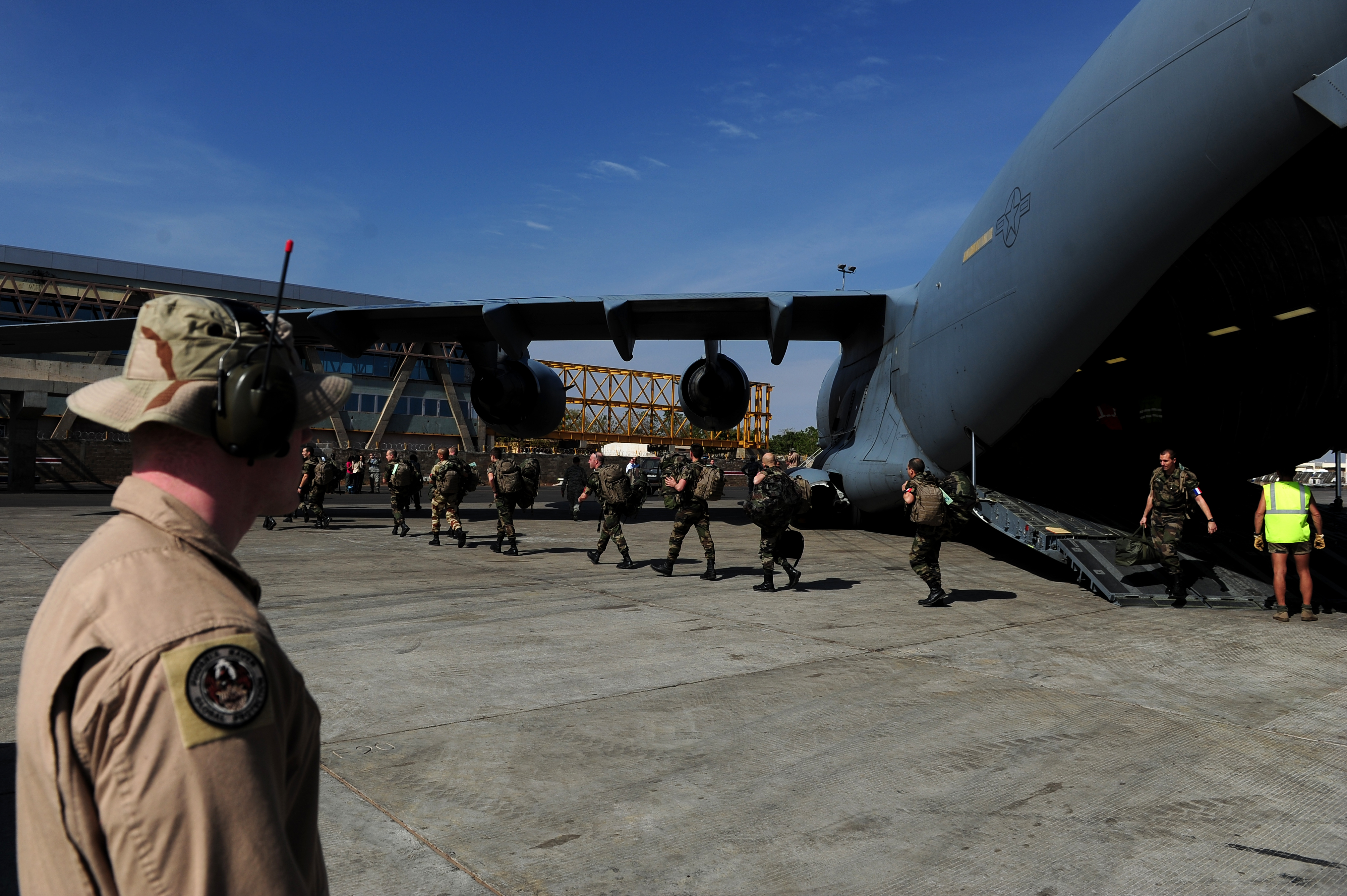 French soldiers depart a U.S. Air Force C-17 Globemaster III in Bamako, Mali. The C-17 can carry up to 170,900 pounds of cargo, and can be configured for a variety of loadouts, including aeromedical evacuation, cargo transportation and passenger movement.